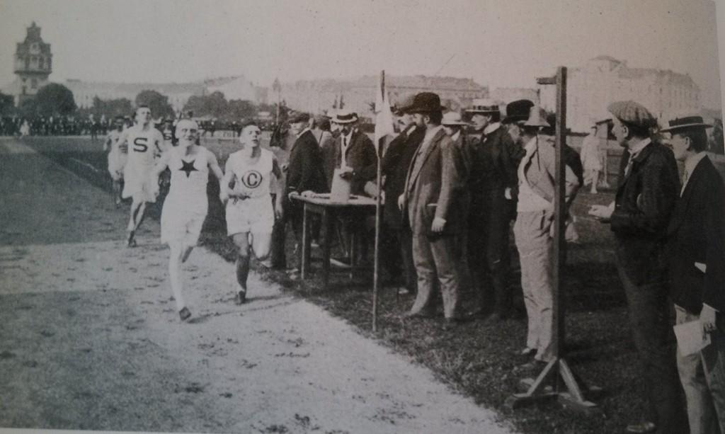 Nejedlý v cíli Karlínského memorialu na Letné 1907 Foto E.Pavlík